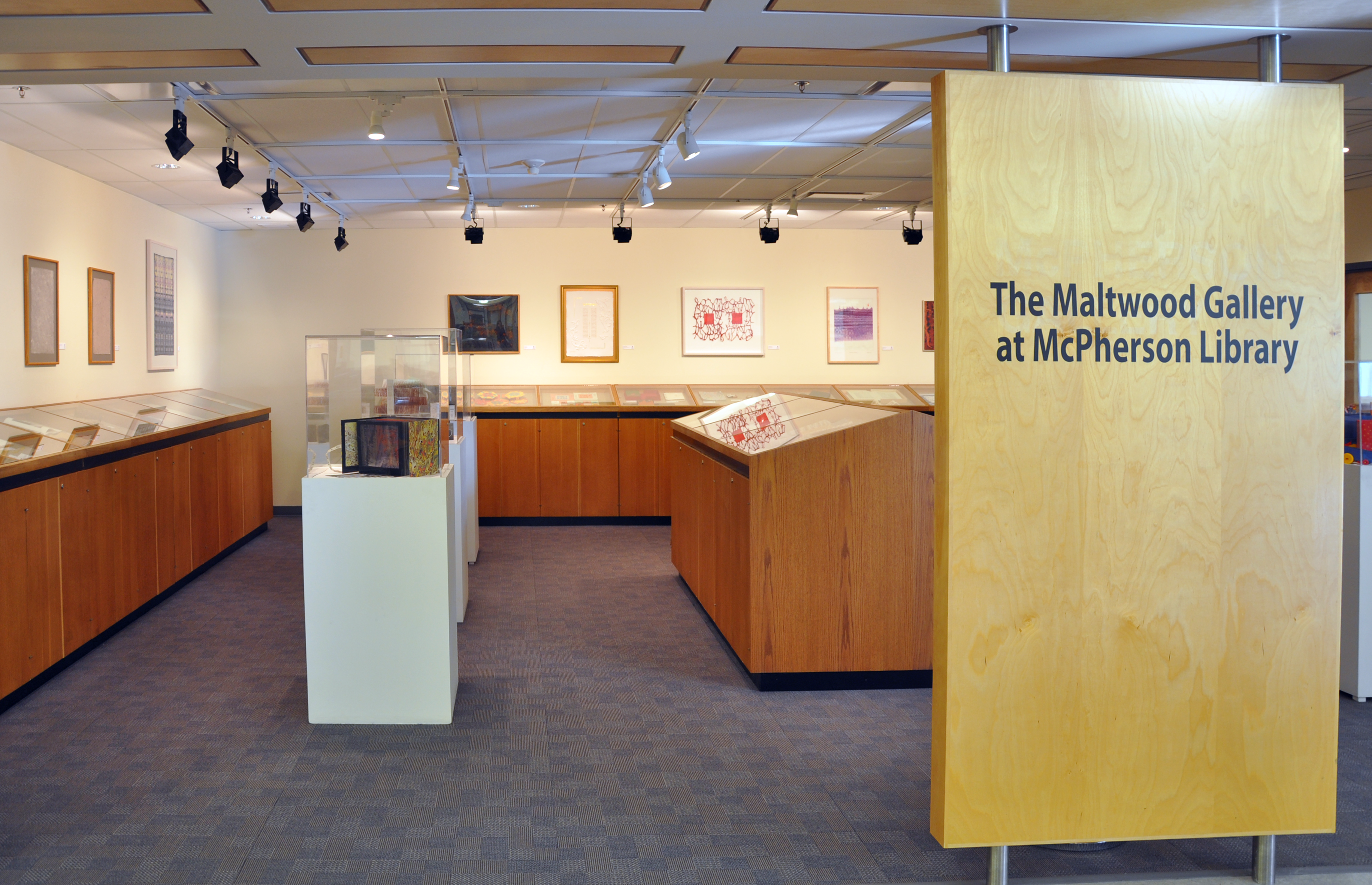 Maltwood Prints and Drawings Gallery - Art of the Book Exhibit